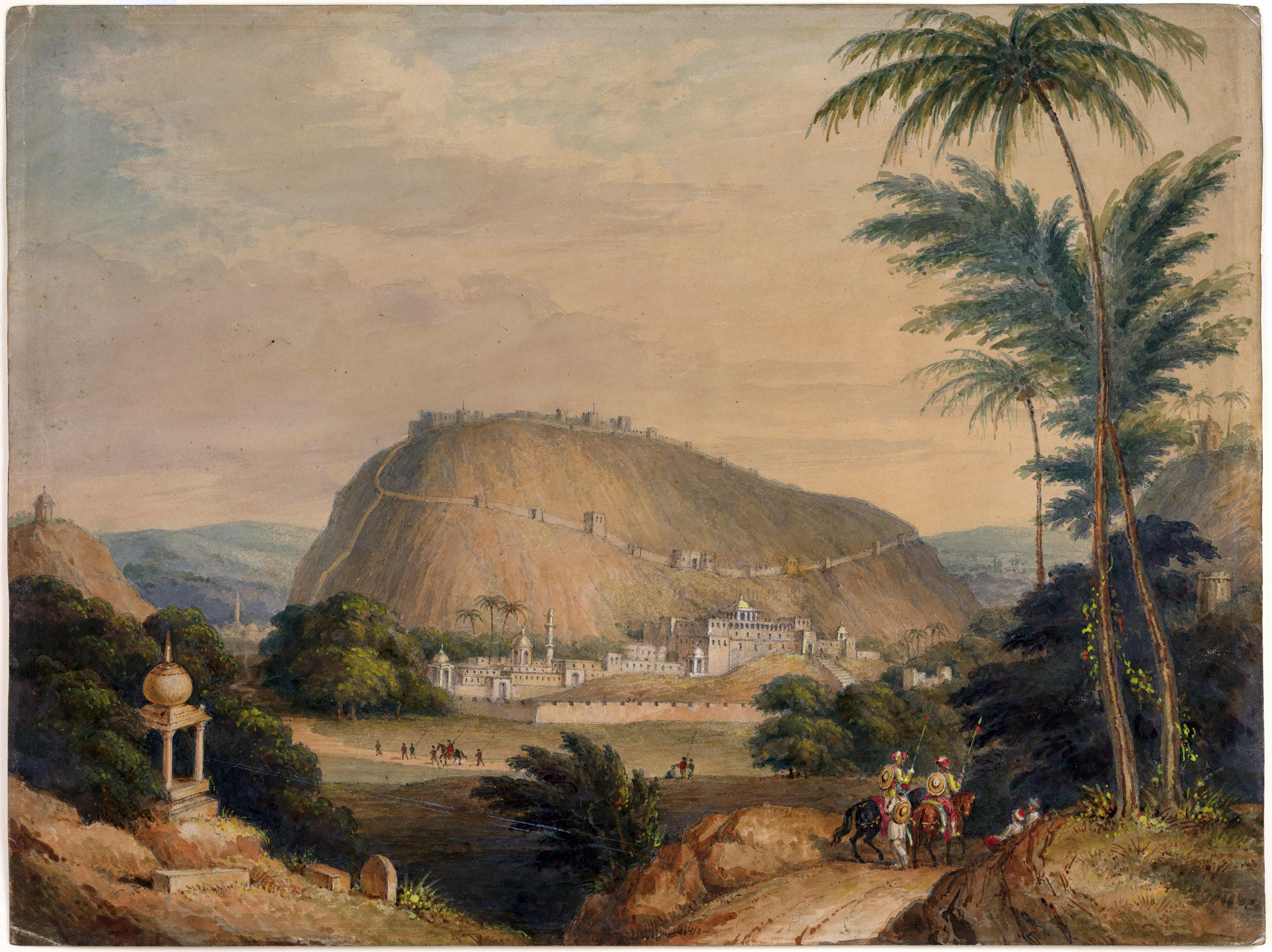 The town and pass of Bundi (Rajputana) in Rajasthan. Bundi was founded in 1341 by Rao Deva and is situated in a narrow valley within the Aravalli Hills in Rajasthan. The ruling family of the state, the Hara Chauhan clan of Rajputs, built a series of impressive palaces, gardens and tanks, which appear to have been carved out of the hillside in several tiers. The town is full of attractive garden pavilions, step well tanks, temples and memorial pavilions. One of the palace complexes of the town can be seen on the hill in the background of this view.